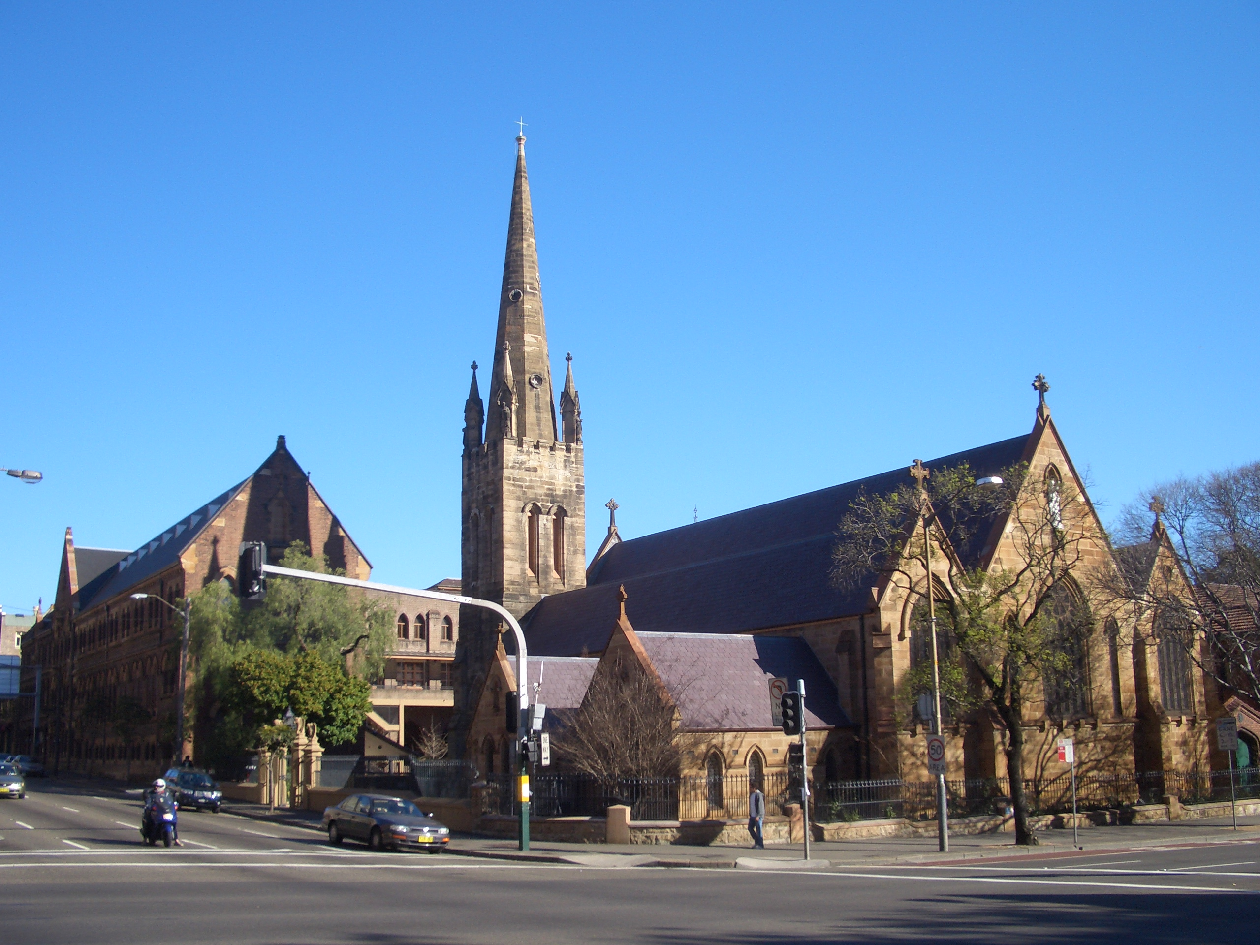 St Benedicts Church and University of Notre Dame, Chippendale